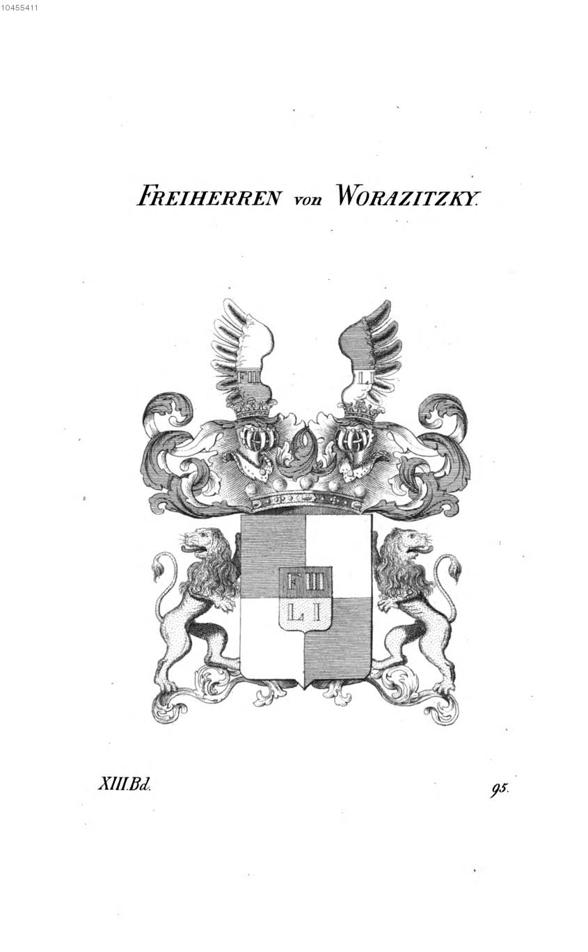 Wappen Worazitzky - Tyroff AT.jpg